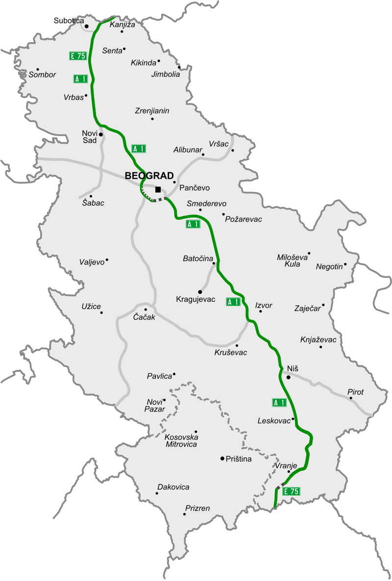 Map of Autoput A1 by 2019